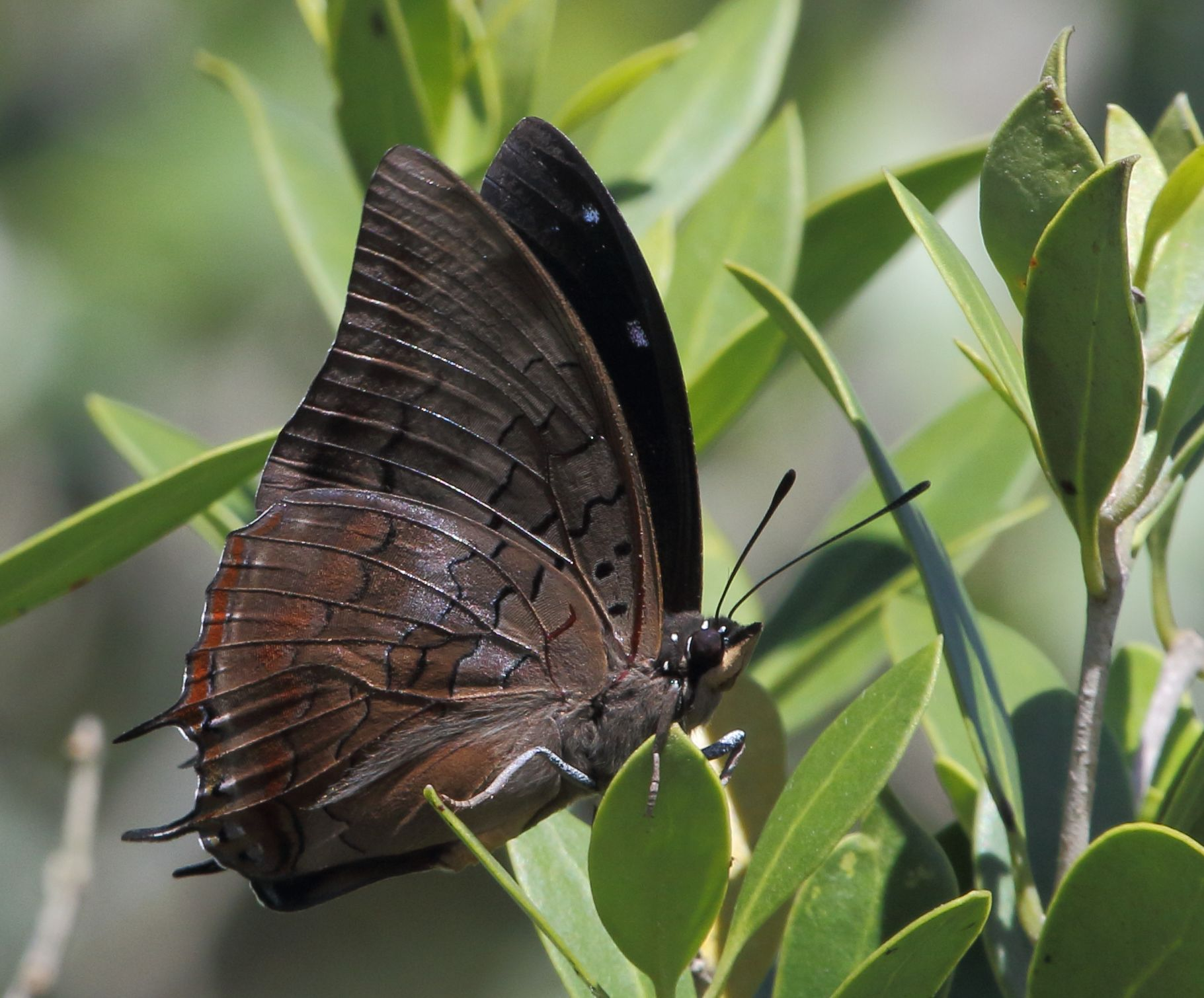 Male Satyr Emperor Charaxes ethalion at Cumberland Nature Reserve, KwaZulu-Natal. LepiMAP record no. 621882